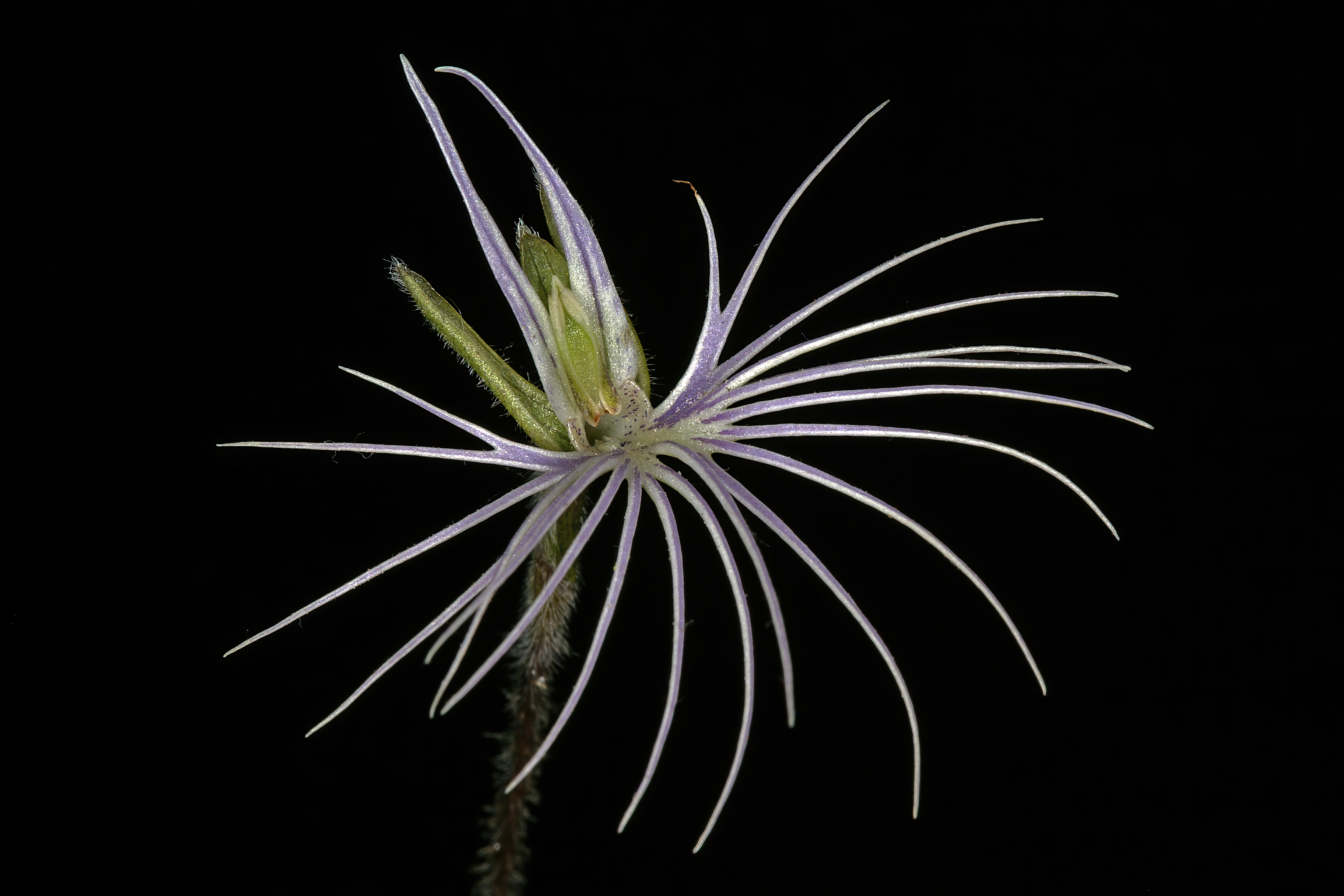 Bartholina burmanniana, flower (front view); Caledon Wild Flower Show, Caledon, Western Cape, South Africa